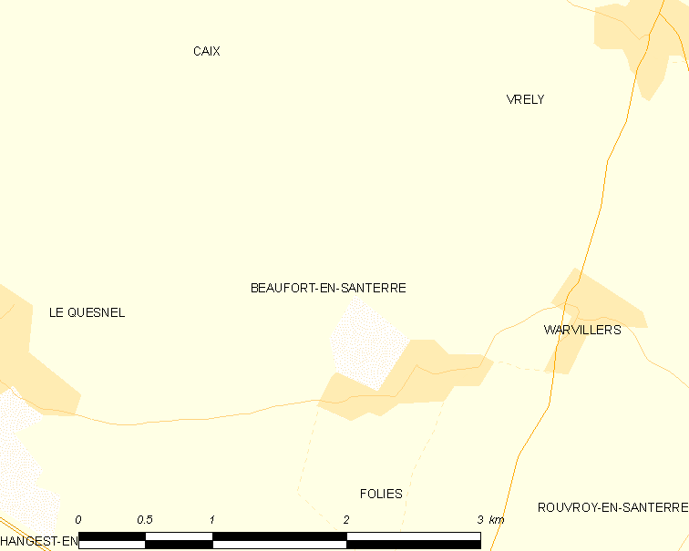 Map of French municipality Beaufort-en-Santerre